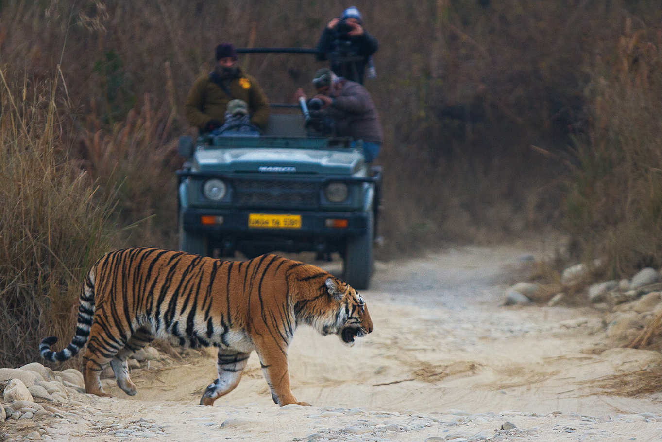 Filmmakers were busy capturing footage of this sub-adult tiger in Bijrani zone of Corbett TR, Uttarakhand, India.